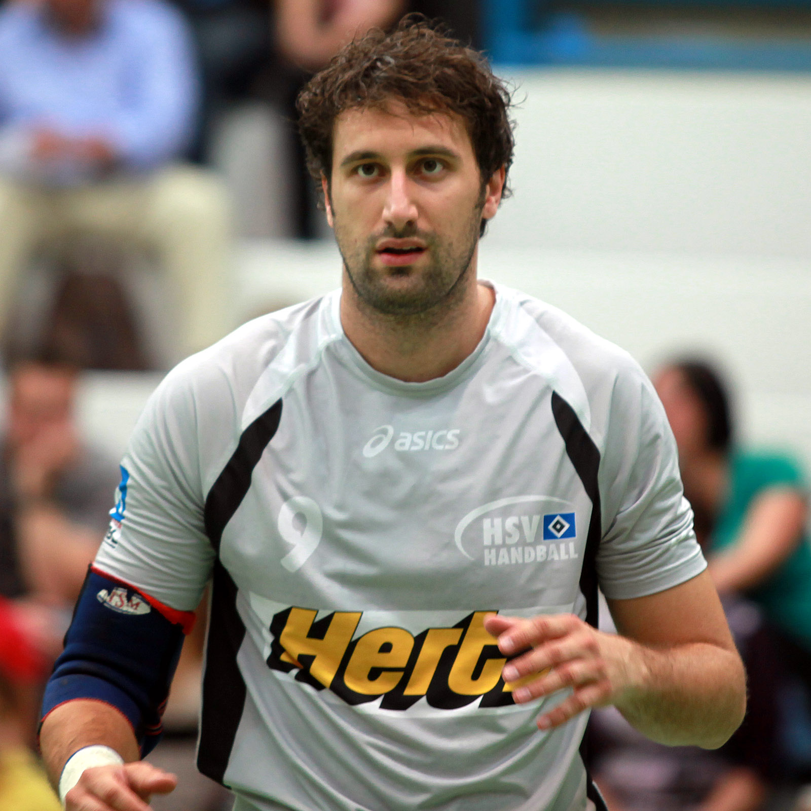 Igor Vori, Croatian handball player from HSV Hamburg, on September 6th, 2009 in the f.a.n. frankenstolz arena of Aschaffenburg, prior the bundesliga match TV Großwallstadt vers. HSV Hamburg (24:27).